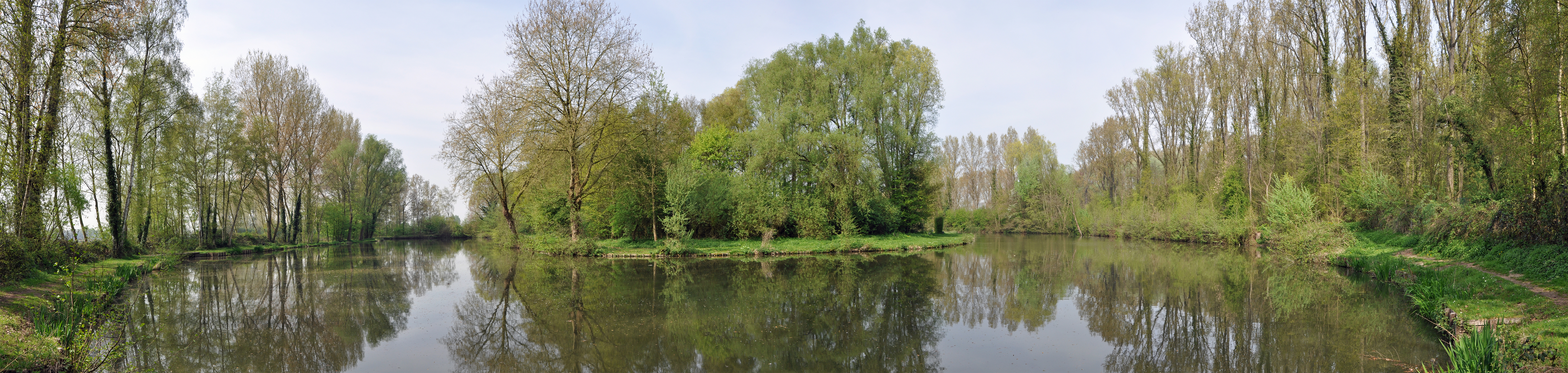 Gavere (Belgium): old branch of the Scheldt